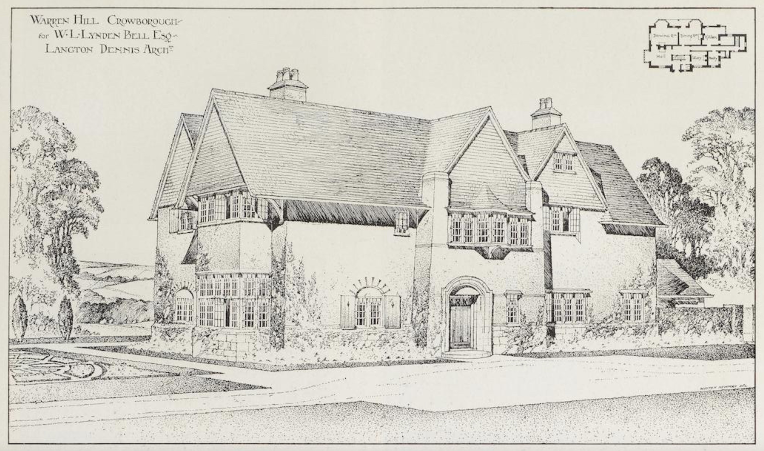 Warren Hill, Crowborough, Sussex by Langton Dennis, Architect. From The Studio Yearbook 1910